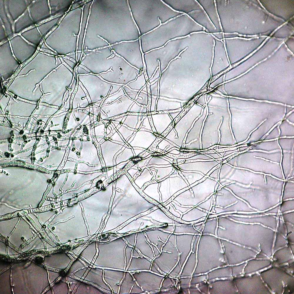 Mold, growing in a Petri dish from a sample of dust and debris from some repair work in the bathroom of our apartment. To take this picture, I put the entire Petri dish on the stage of my microscope. The mold is growing in EasyGel nutrient from Wild Goose Science. 10× objective, 10× eyepiece. This image is scaled so that each pixel is a square micron, and the whole image is a square millimeter.